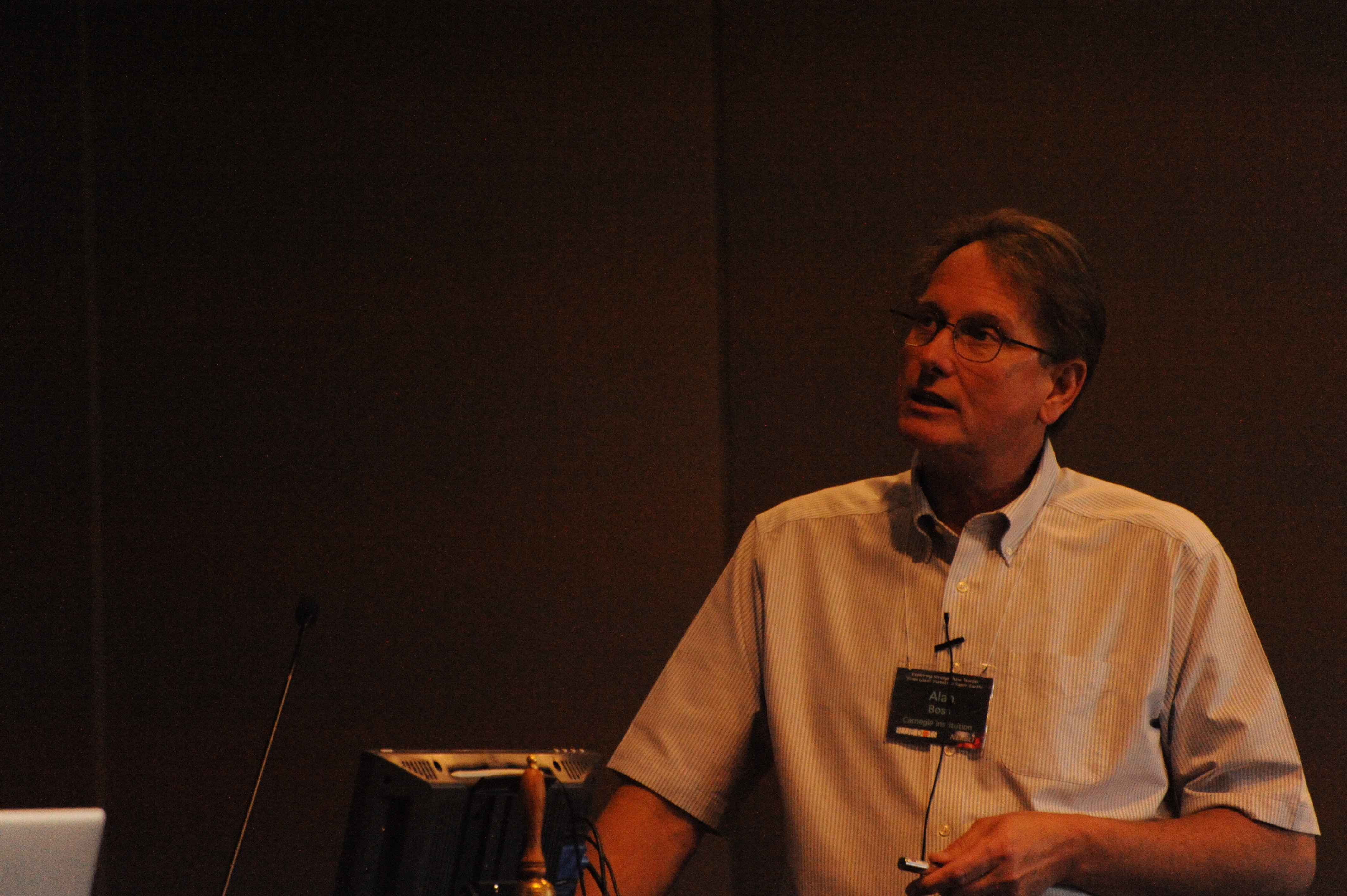 Alan P. Boss (born 20 July 1951, in Lakewood) is a United States astrophysicist and planetary scientist.